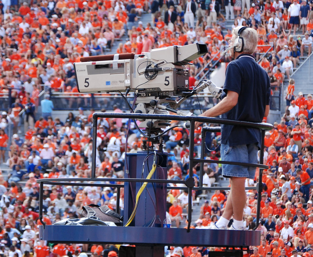 Television camera on a mobile platform used for sideline shots at the 2007 Auburn University vs. Vanderbilt University college football game.